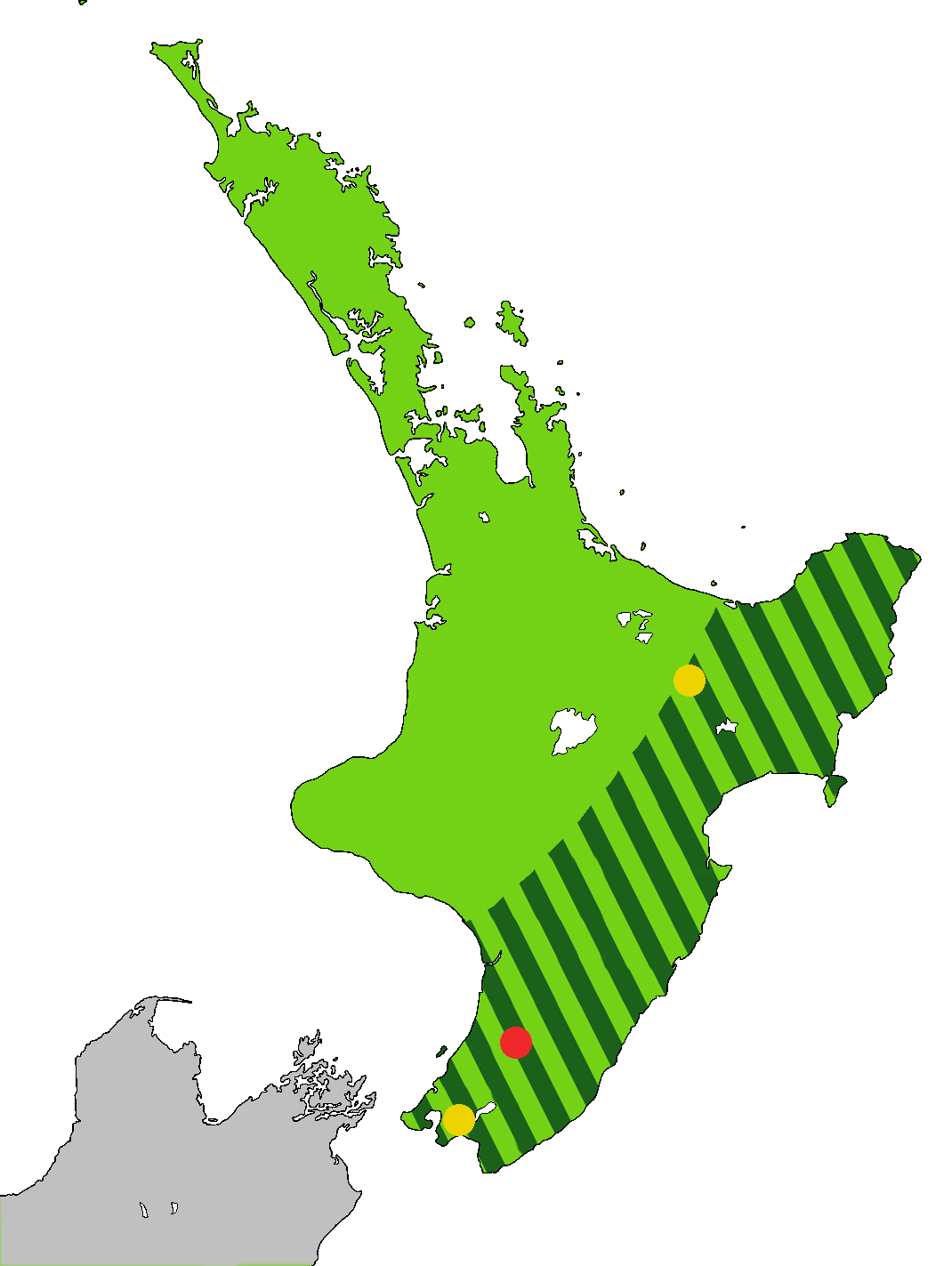 Light green: Range of the Huia, Heteralocha acutirostris, before the arrival of humans to New Zealand, as indicated by fossils. Dark green stripes: Range at 1840. Last sightings of the Huia: Red - last confirmed sighting in 1907 in Tararua Range. Yellow x 2 include one behind Eastbourne at the southern end of the North Island, and one in the Te Urewera National Park. The Huia is an extinct bird that was endemic to the North Island of New Zealand